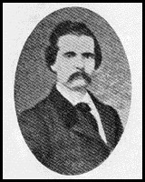 A photo of Brazilian writer Manuel Antônio de Almeida